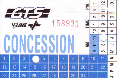 Geelong Transit System railway issue ticket